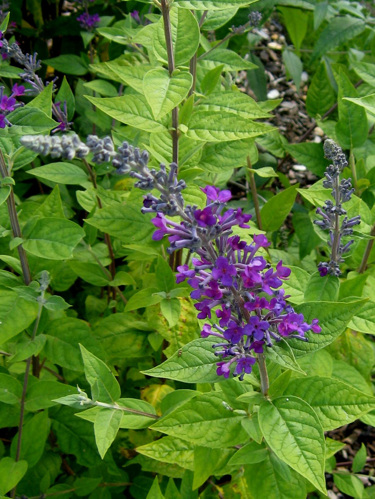 Photo of Buddleja cultivar 'Longstock Pride' taken at Longstock Park, UK, August 2012